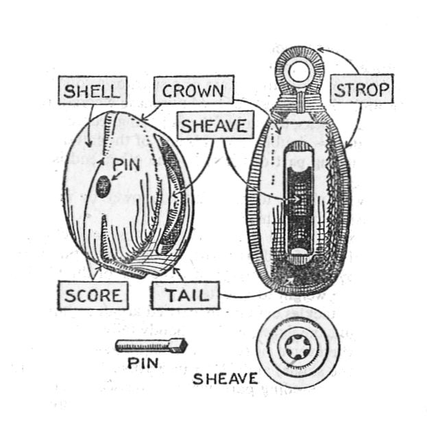 Parts of a block (Seaman's Pocket-Book, 1943).jpg